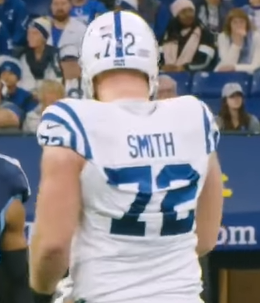 Braden Smith 2019. Image from video Logan Ryan Mic'd Up vs. Colts (Week 13) | Tennessee Titans, ~ 01:18.